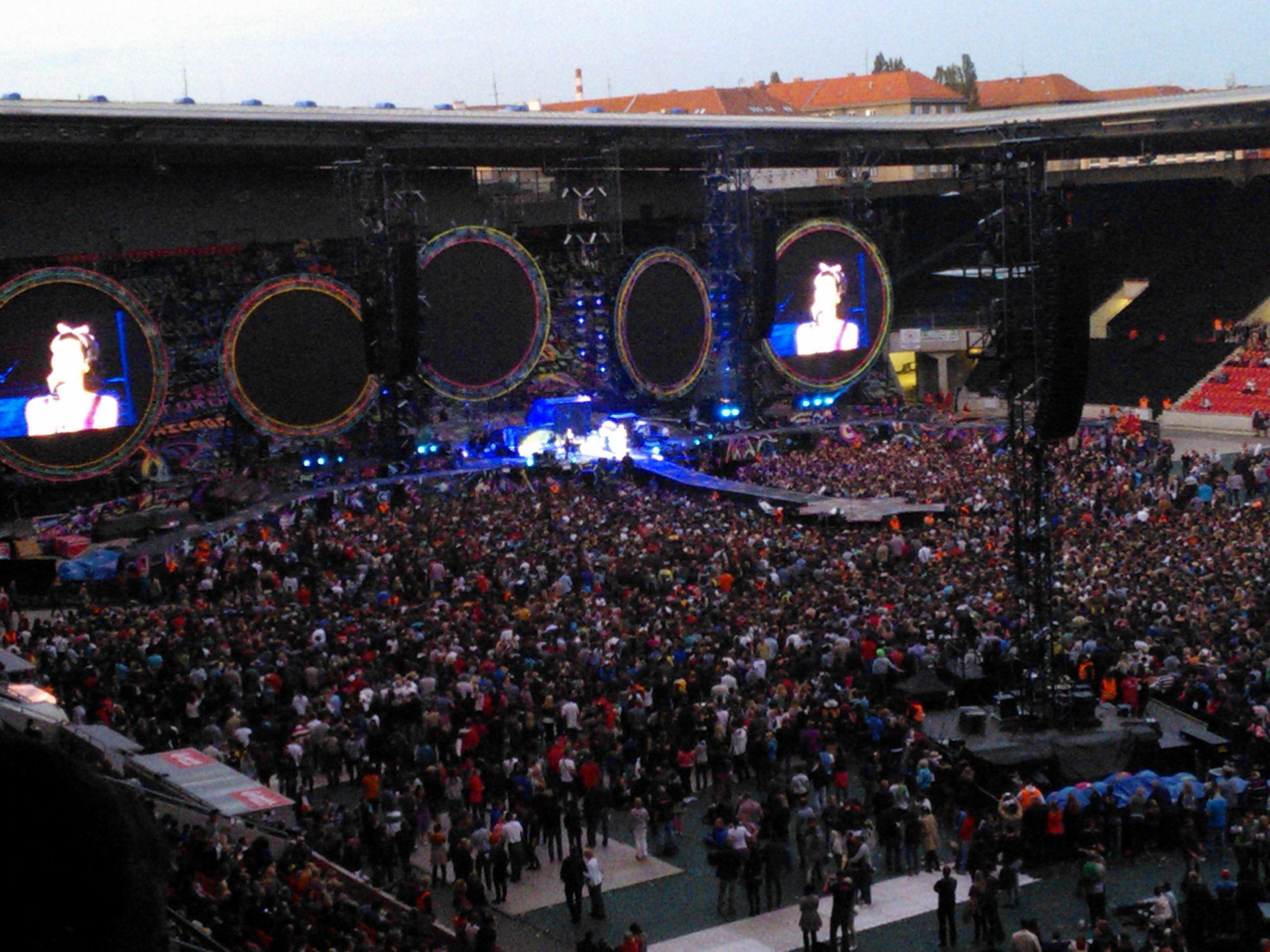 Concert of singer known as Marina and The Diamonds, Eden arena, Prague, 9.16.2012.